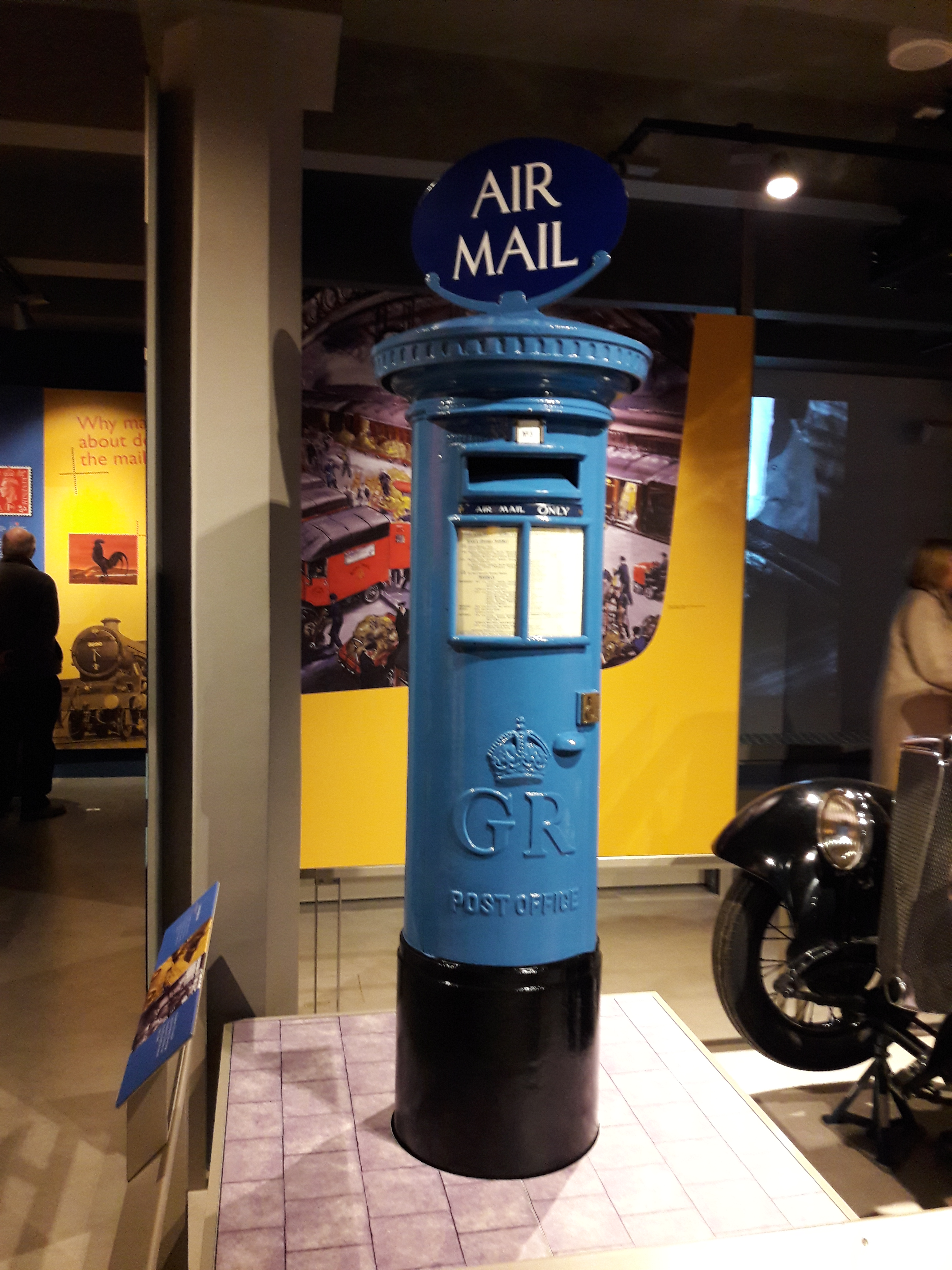 A post box for Air Mail. Now a part of the collection of the British Postal Museum & Archive. Displayed at Postal Museum (London).